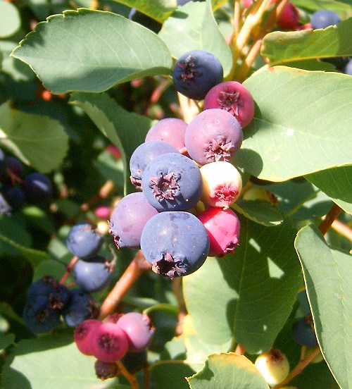 Amelanchier_ovalis, june 2009, Brno Žabovřesky, ZŠ náměstí Svornosti